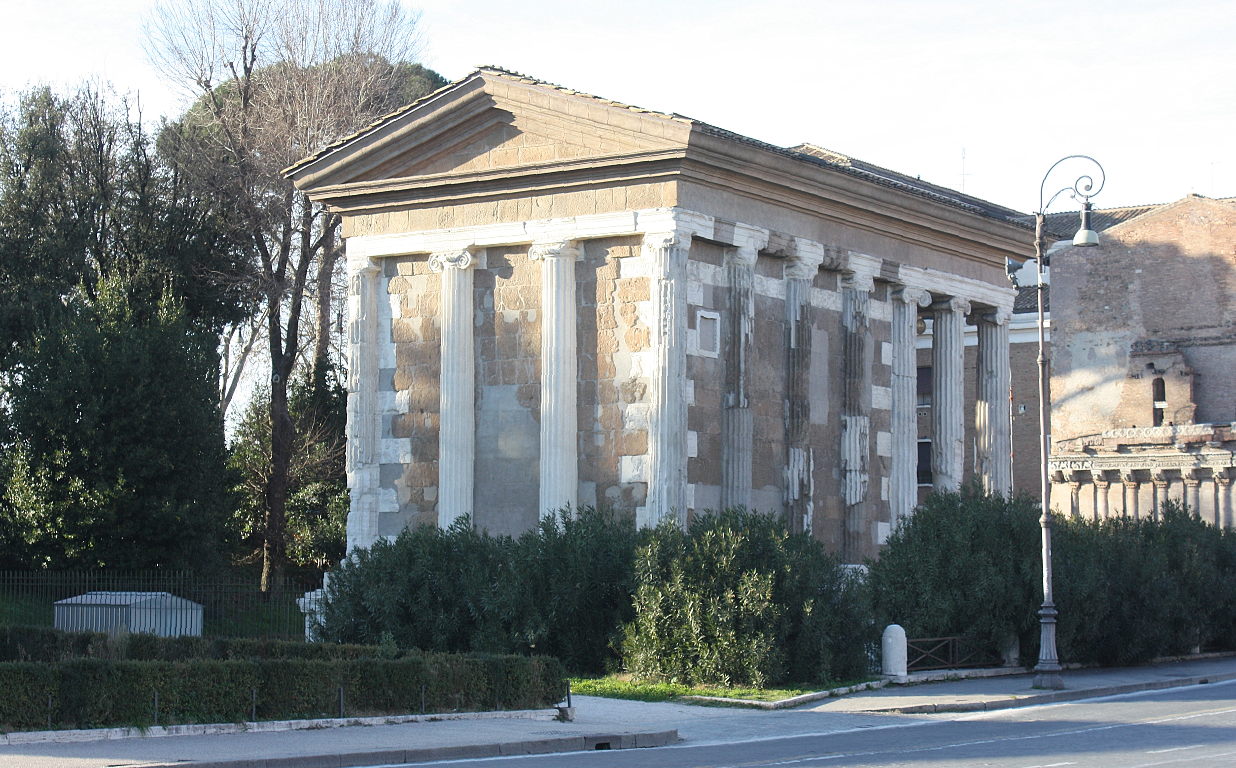 Rome, the Temple of Portunus